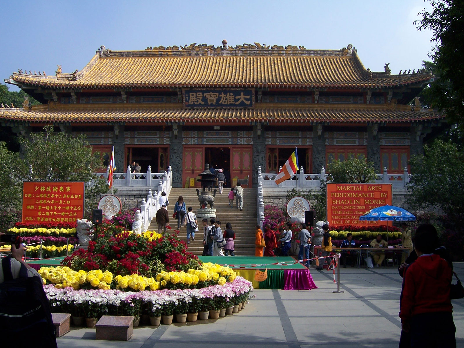 A building at the Po Lin Monastery on Lantau Island. Taken by Enoch Lau on 31 December 2005. As a courtesy, please let me know if you alter this image or this image description page. Original filename was 100_0974.JPG.